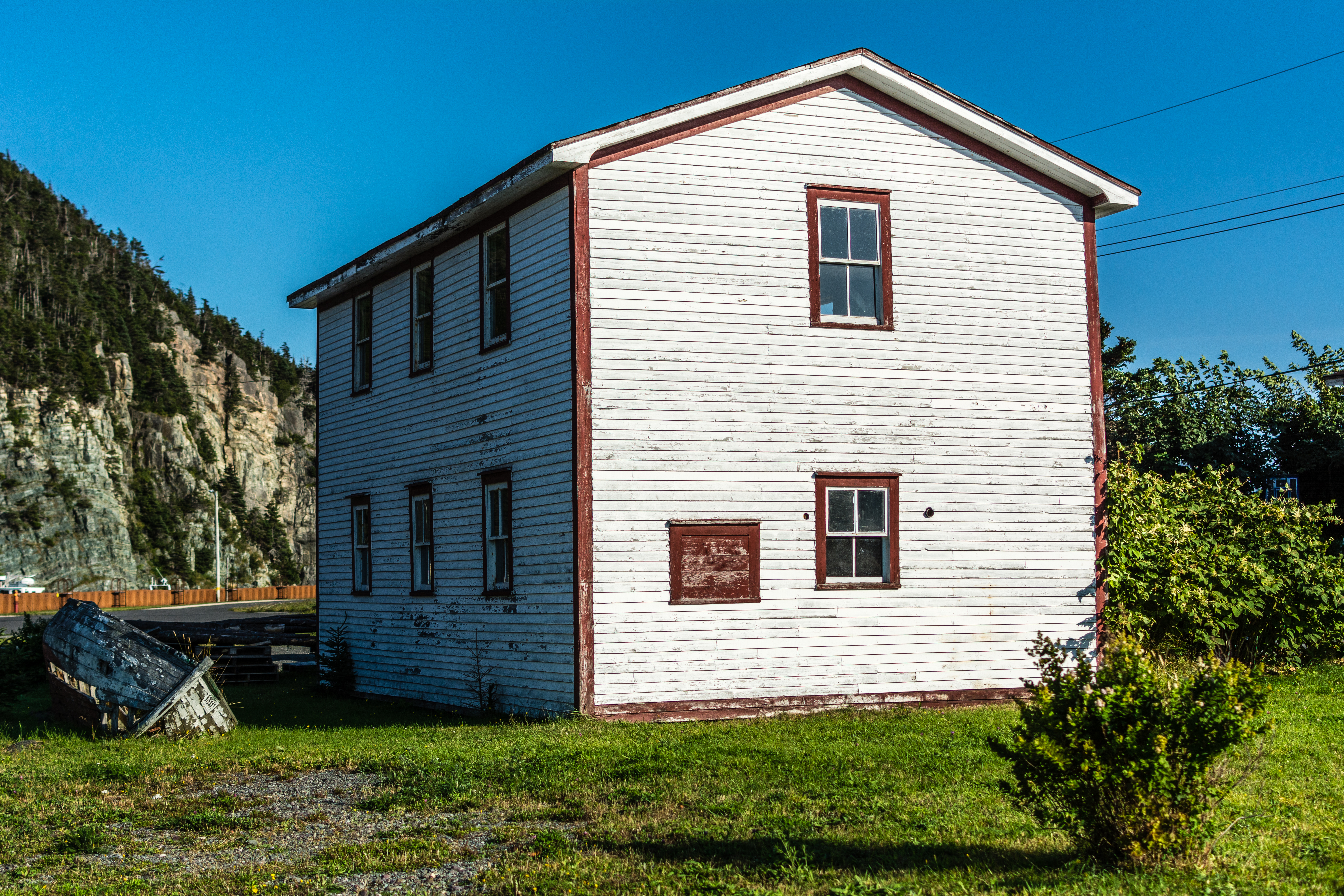 Wakeham Sawmill Registered Heritage Structure in Placentia, Newfoundland and Labrador